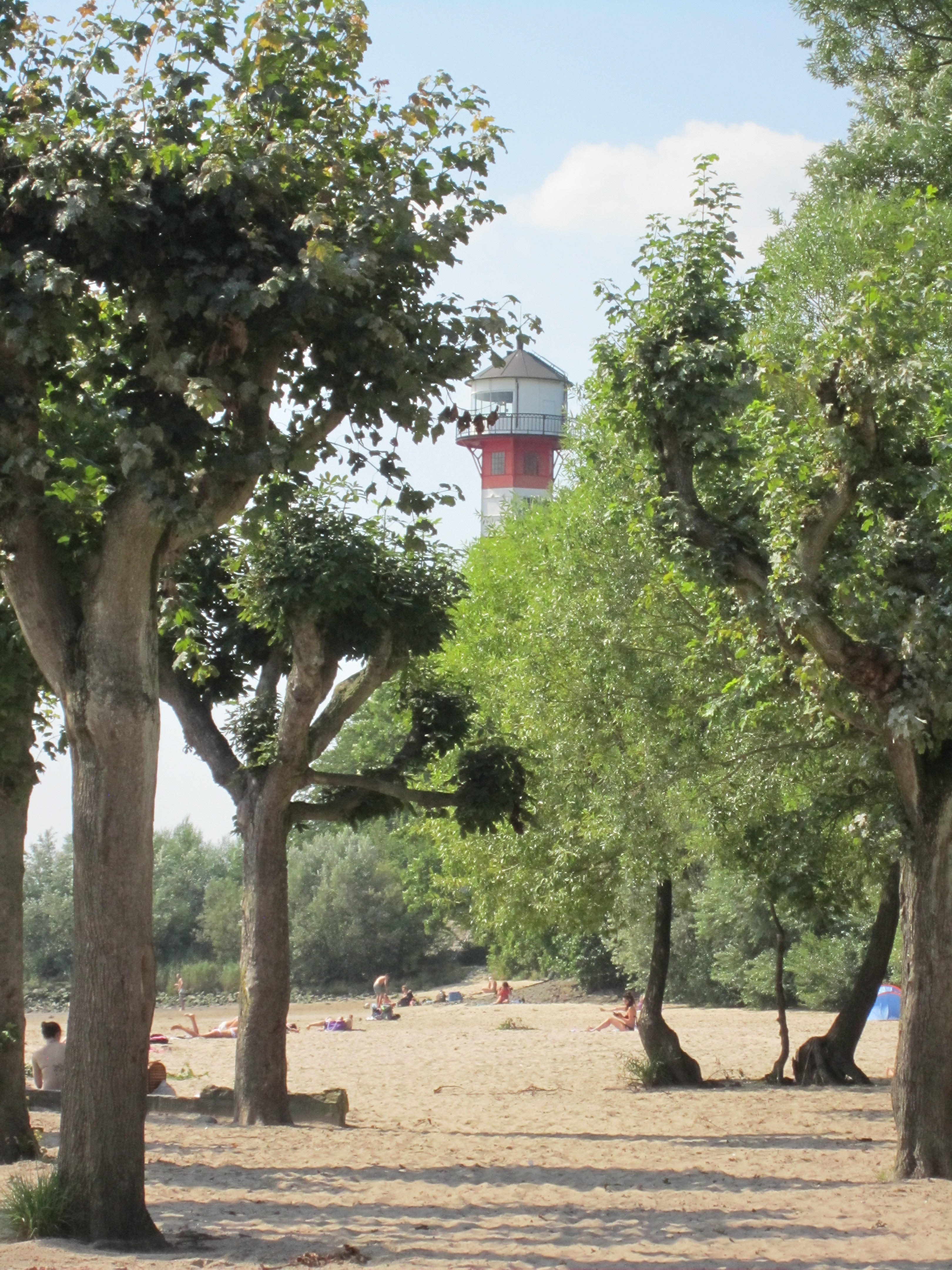 Wittenbergen beach at Elbe River in Hamburg; in the backtground Wittenbergen lighthouse